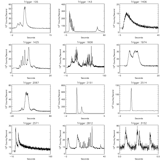 A sampling of the large variety of gamma ray burst time profiles, as detected from the Compton Gamma Ray Observatory.